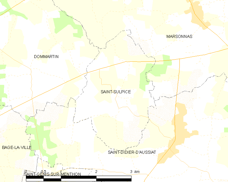 Map of French commune: Saint-Sulpice Map commune FR insee code 01387.png